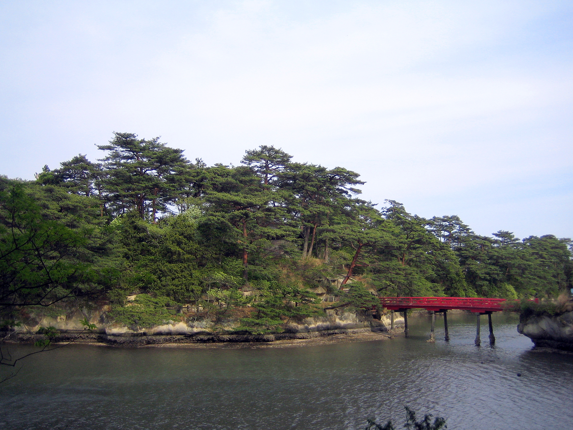 Ojima whose name is Utamakura, one of the islands constituting Matsushima. The red "Togetsukyō Bridge" on the right side of the image, about twenty meters in length, was wholly lost in the Sendai earthquake.cf. [1]